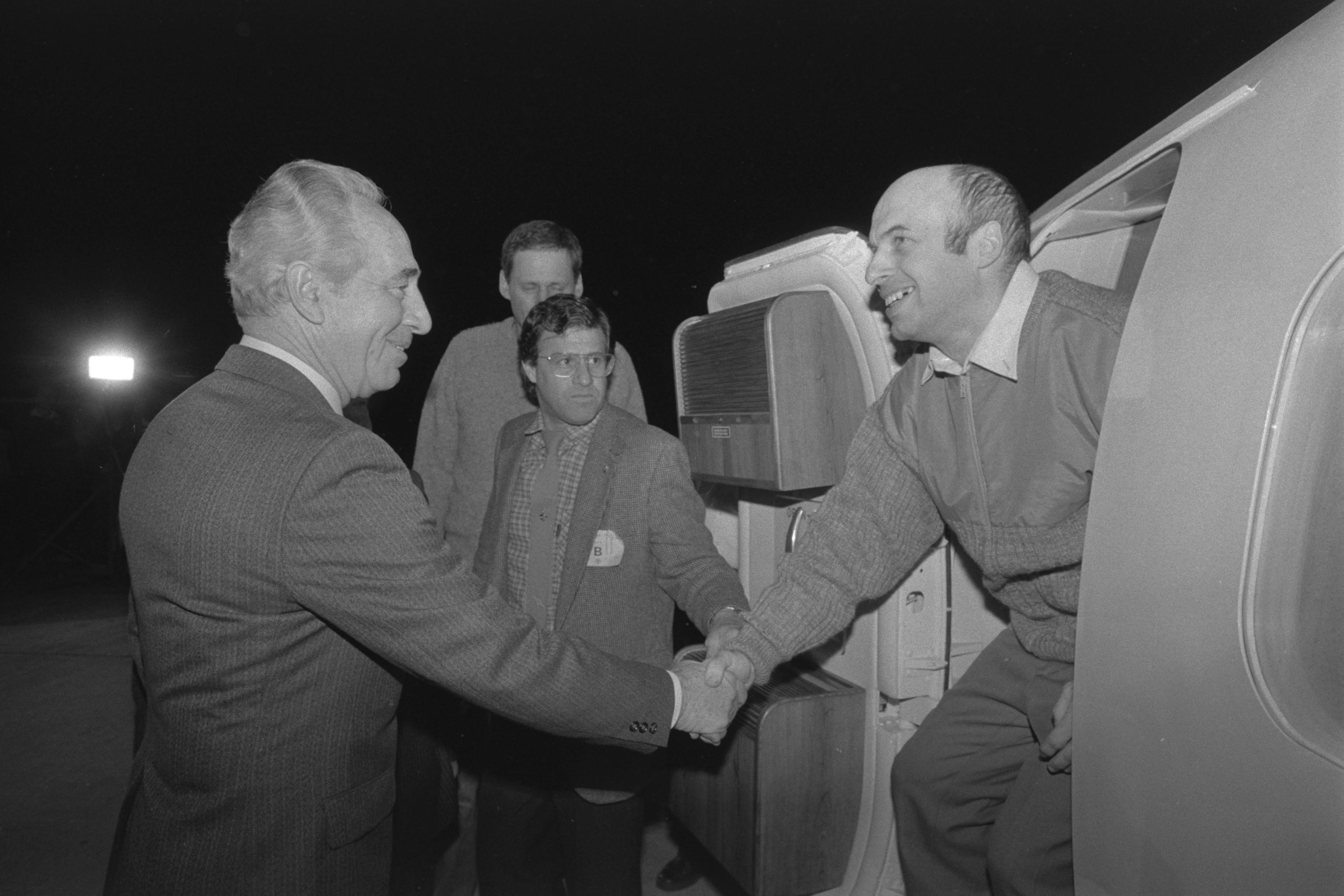 Prime Minister Shimon Peres (left) welcomes released Prisoner of Zion Antatoly Sharansky as he steps off the Westwind plane arriving from Frankfurt at Ben-Gurion Airport. ראש הממשלה, שמעון פרס, מברך את אסיר ציון המשוחרר, אנטולי שרנסקי, בהגיעו לישראל Photo: HARNIK NATI, 02/11/1986